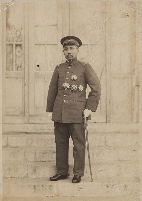 The Premier General Tuan Chi-jui, Head of the Cabinet which decided to declare war on Germany.